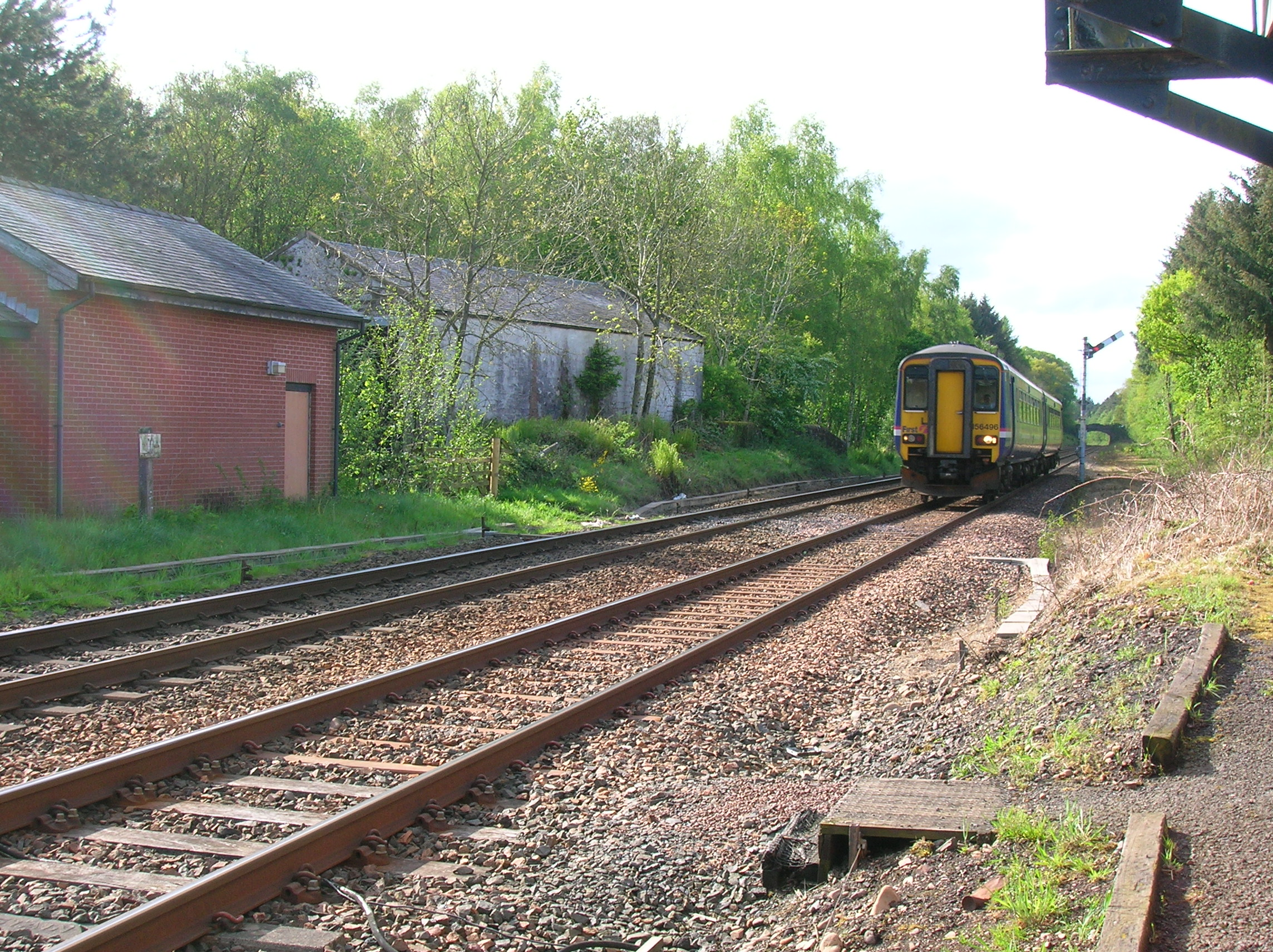 Holywood level crossing and train, Dumfries and Galloway, Scotland.